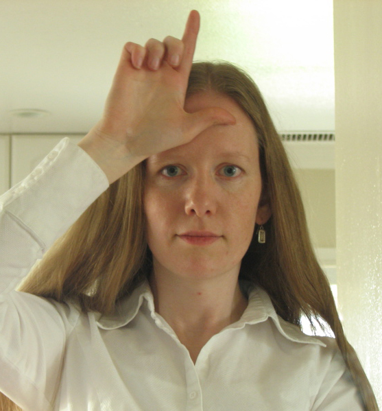 Woman doing the loser sign.